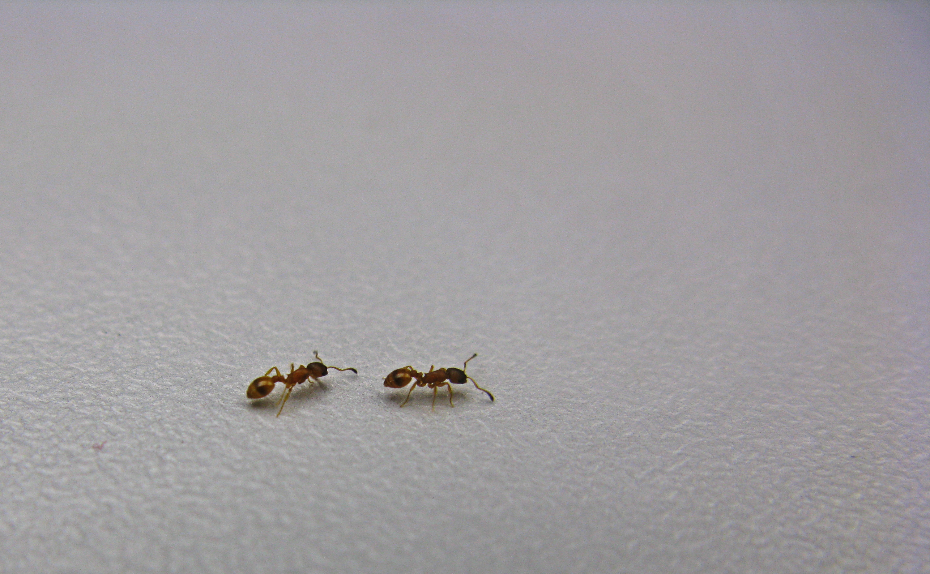 Two worker ants of the species Temnothorax albipennis engaged in a tandem run, during this process, the leading ant teaches the follower the route to a new nest.